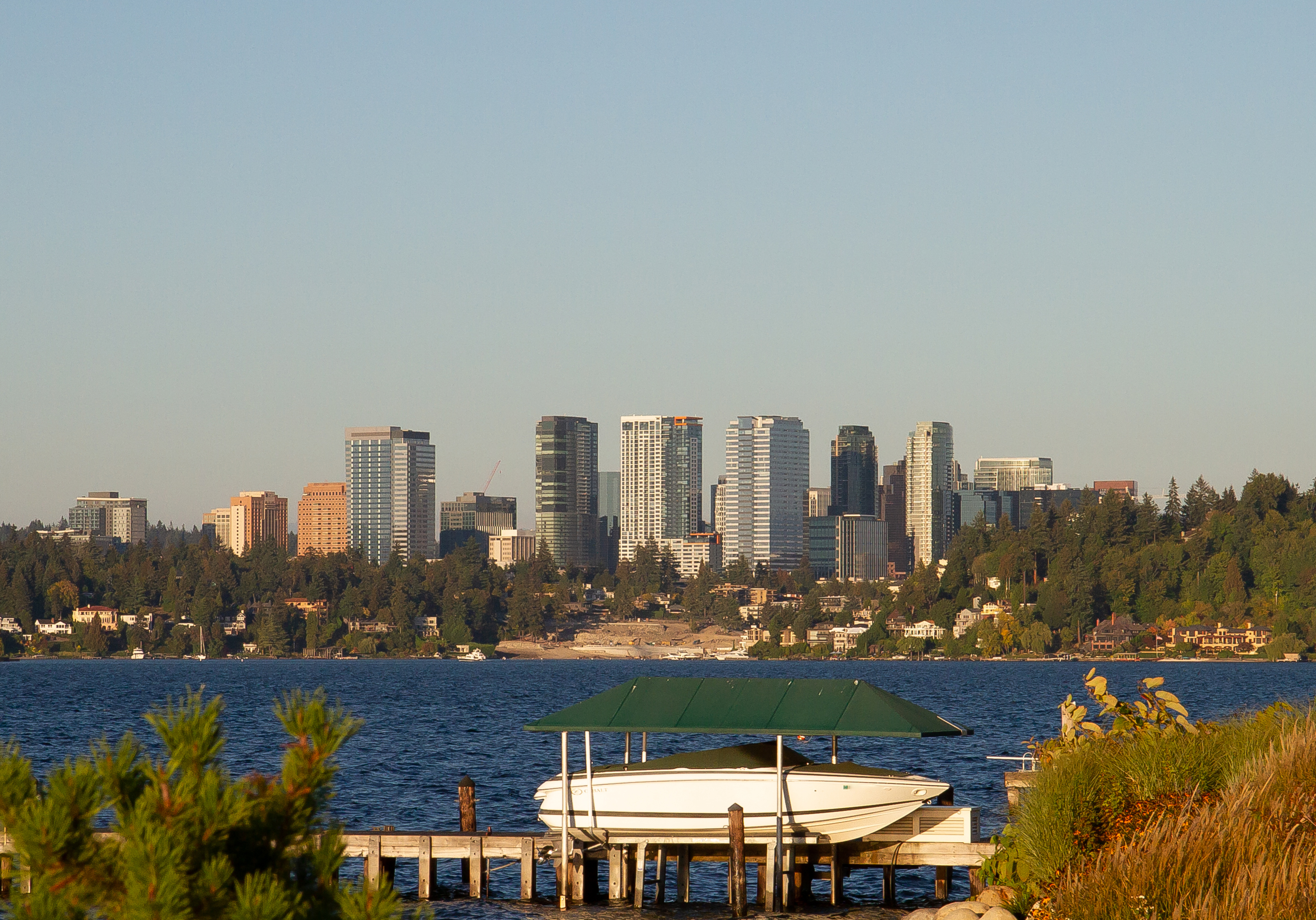 Bellevue skyline from Mercer Island